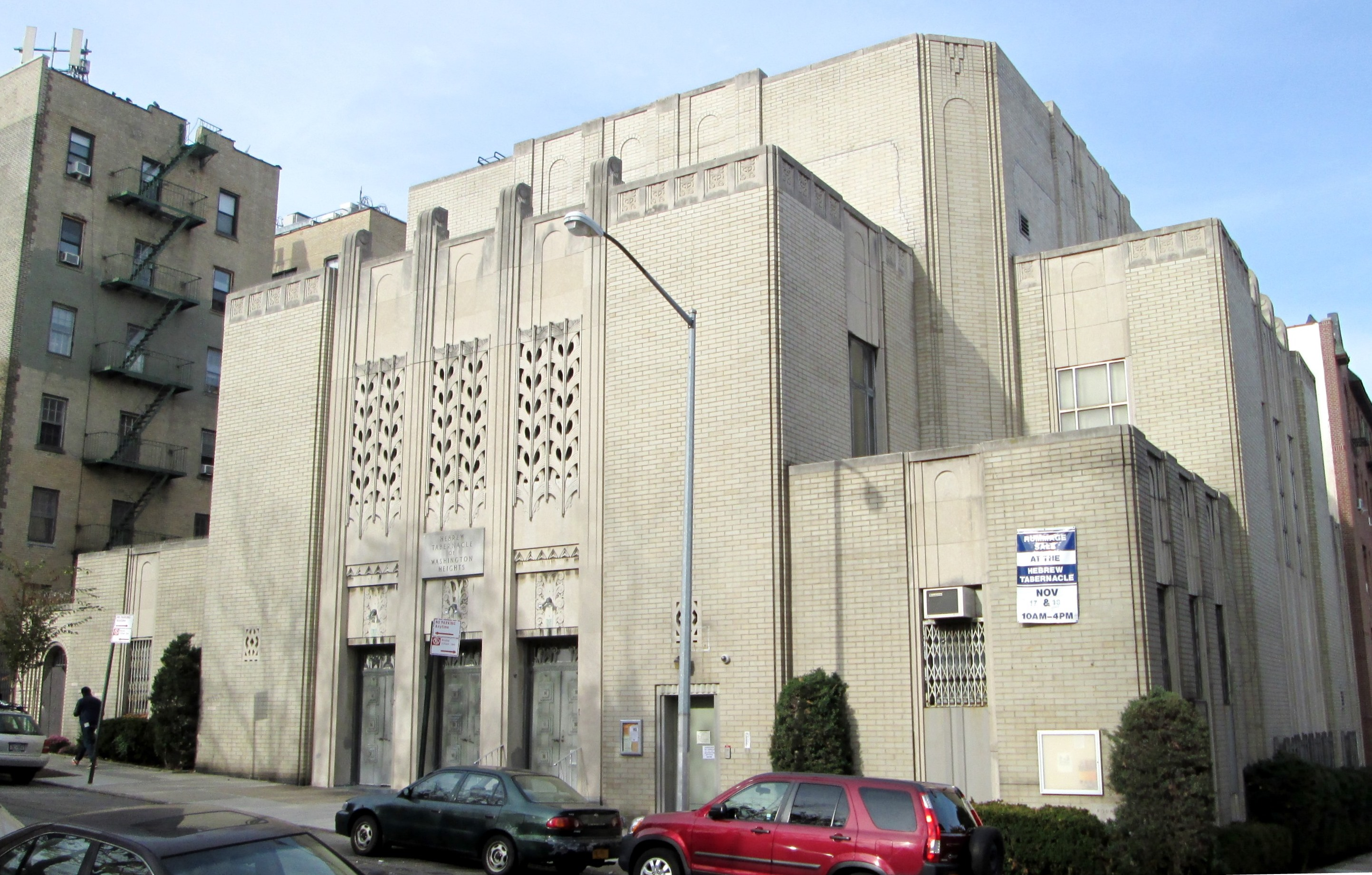 The Hebrew Tabernacle of Washington Heights at 551 Fort Washington Avenue at the corner of West 185th Street across from Bennett Park in the Hudson Heights neighborhood of Manhattan, New York City, was built in 1931-32 as the Fourth Church of Christ, Scientist, and was designed by Cherry & Matz in the Art Moderne style. The Hebrew Tabernacle moved there in 1973 from 609 West 161st Street, which is now a Jehovah's Witness Kingdom Hall. The Hebrew Tabernacle congregation was founded in 1906. (Sources: From Abyssinian to Zion (2004) and AIA Guide to NYC(5th ed.)))